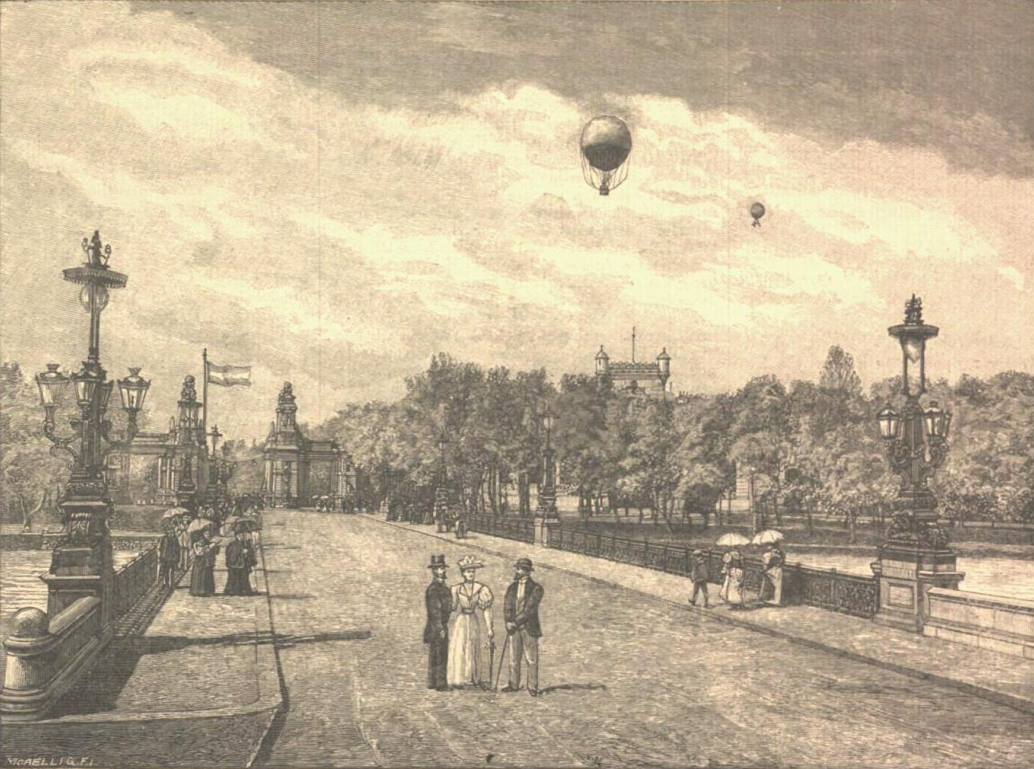 Millennial exhimbition in Budapest, Bridge in the Városliget